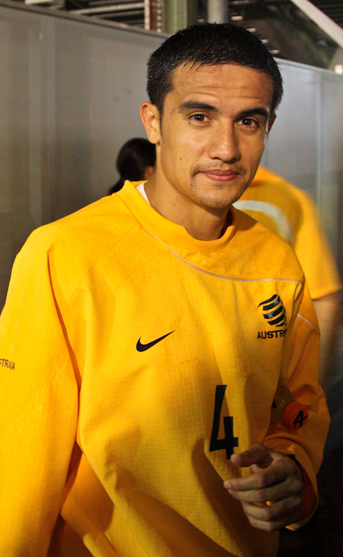 Tim Cahill after a training session at ANZ Stadium the day before a World Cup Qualifying game against Uzbekistan.